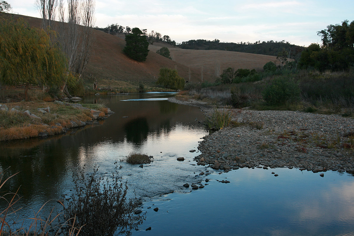 Tambo River looking south from the river crossing at Tambo Crossing, East Gippsland, Victoria, Australia.